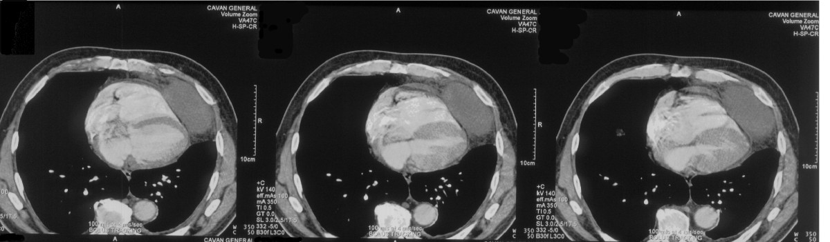 CT Scan of the thorax showing the pericardial cyst.